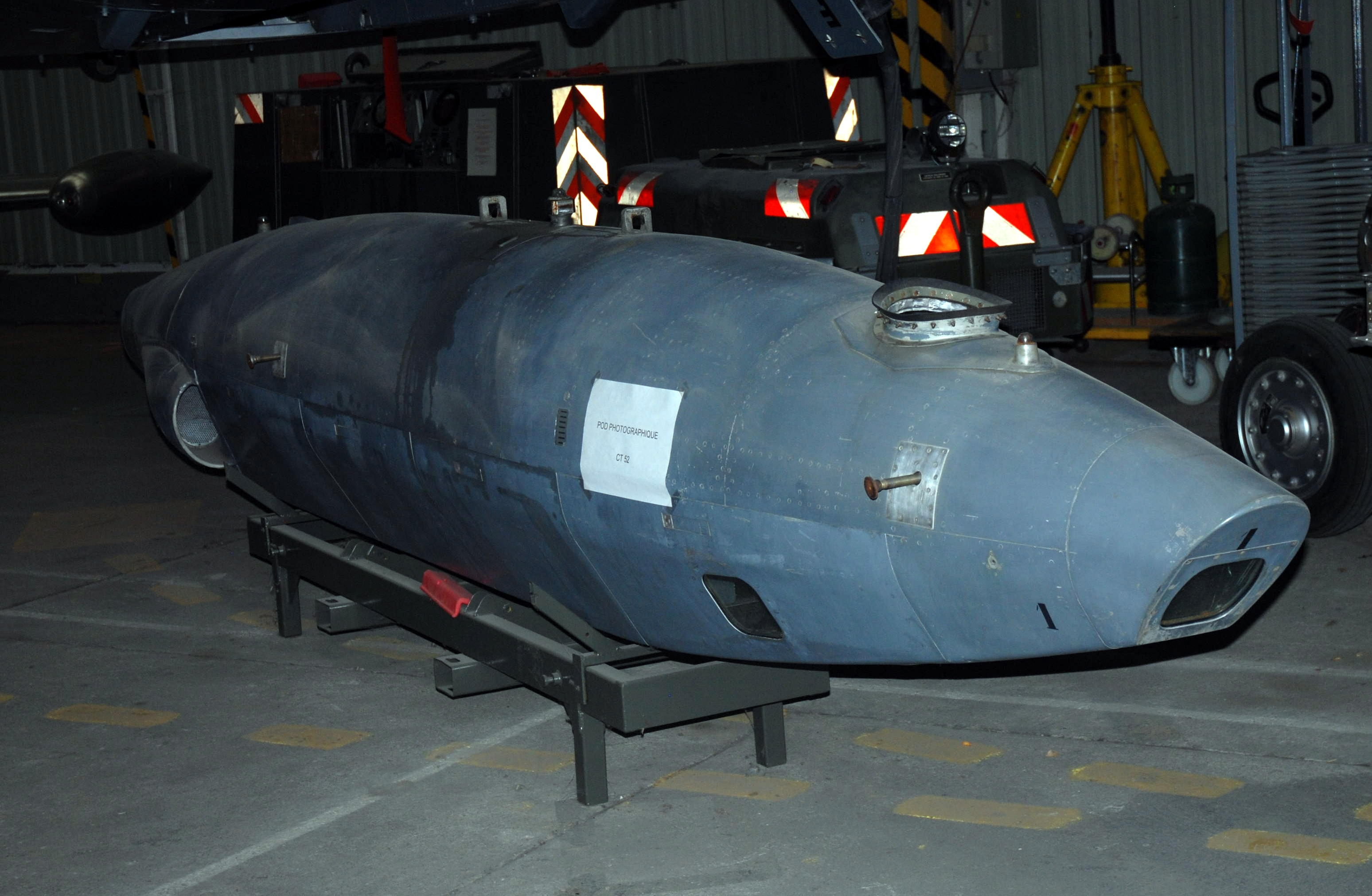 Photo ref; Nikon-D80-2014-DSC_0835 (Edited)